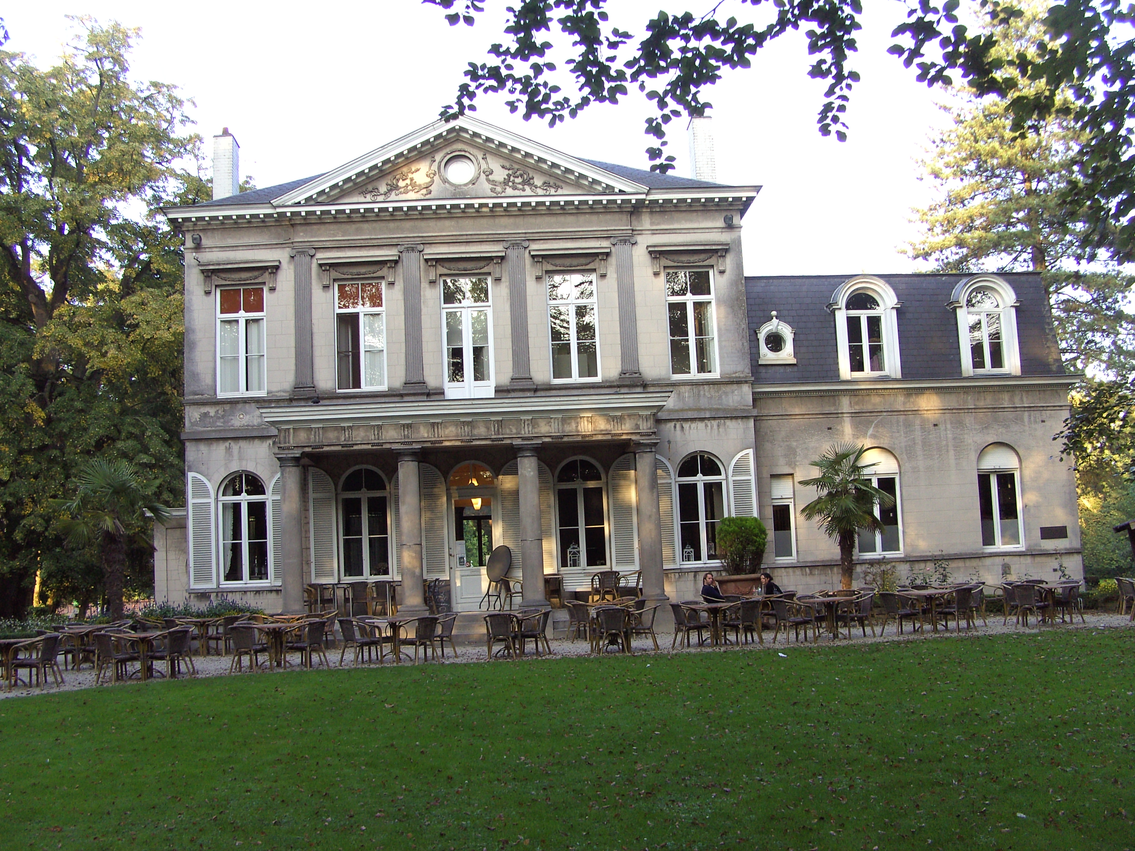 Castle of Casier